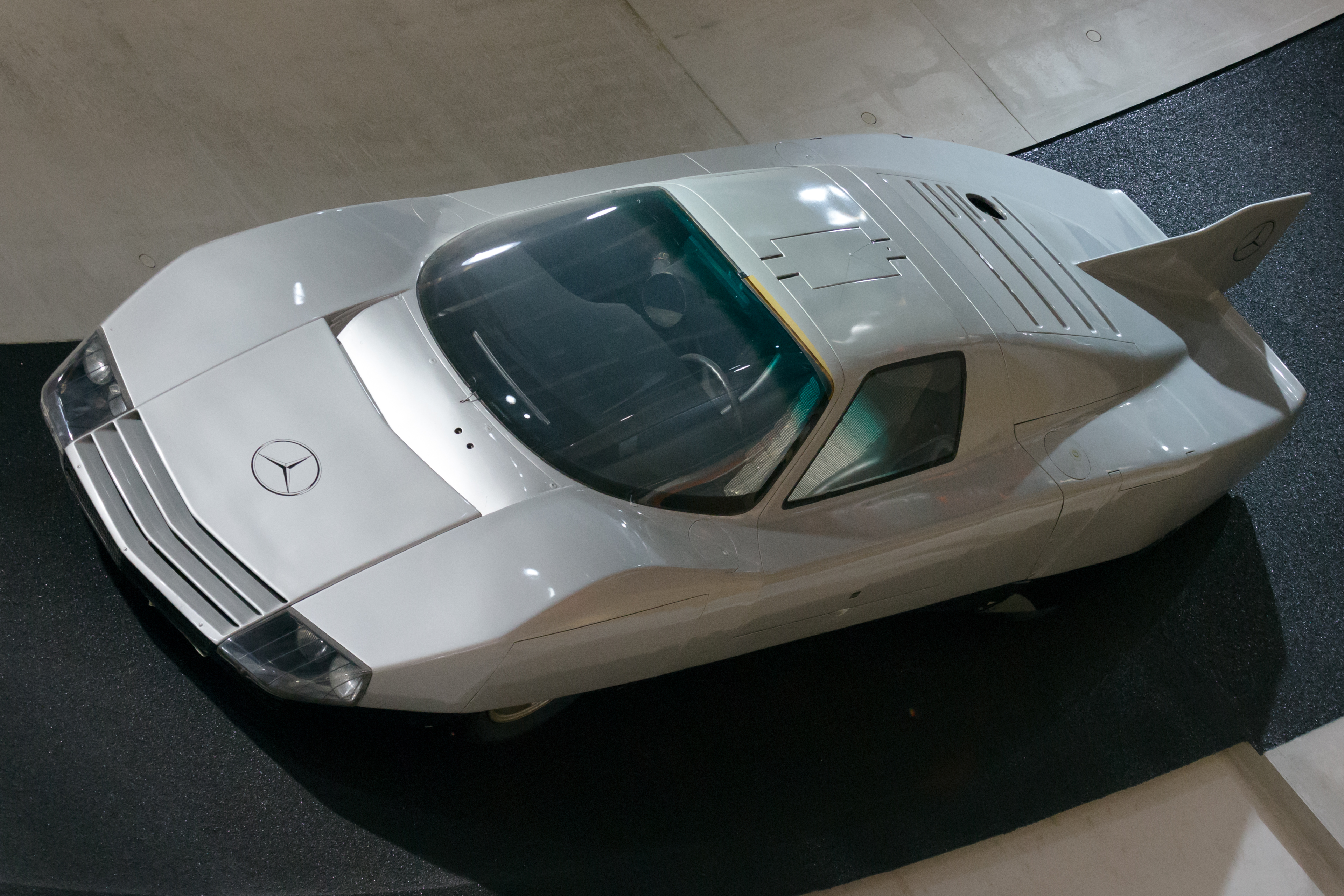 1978 Mercedes-Benz C111-III